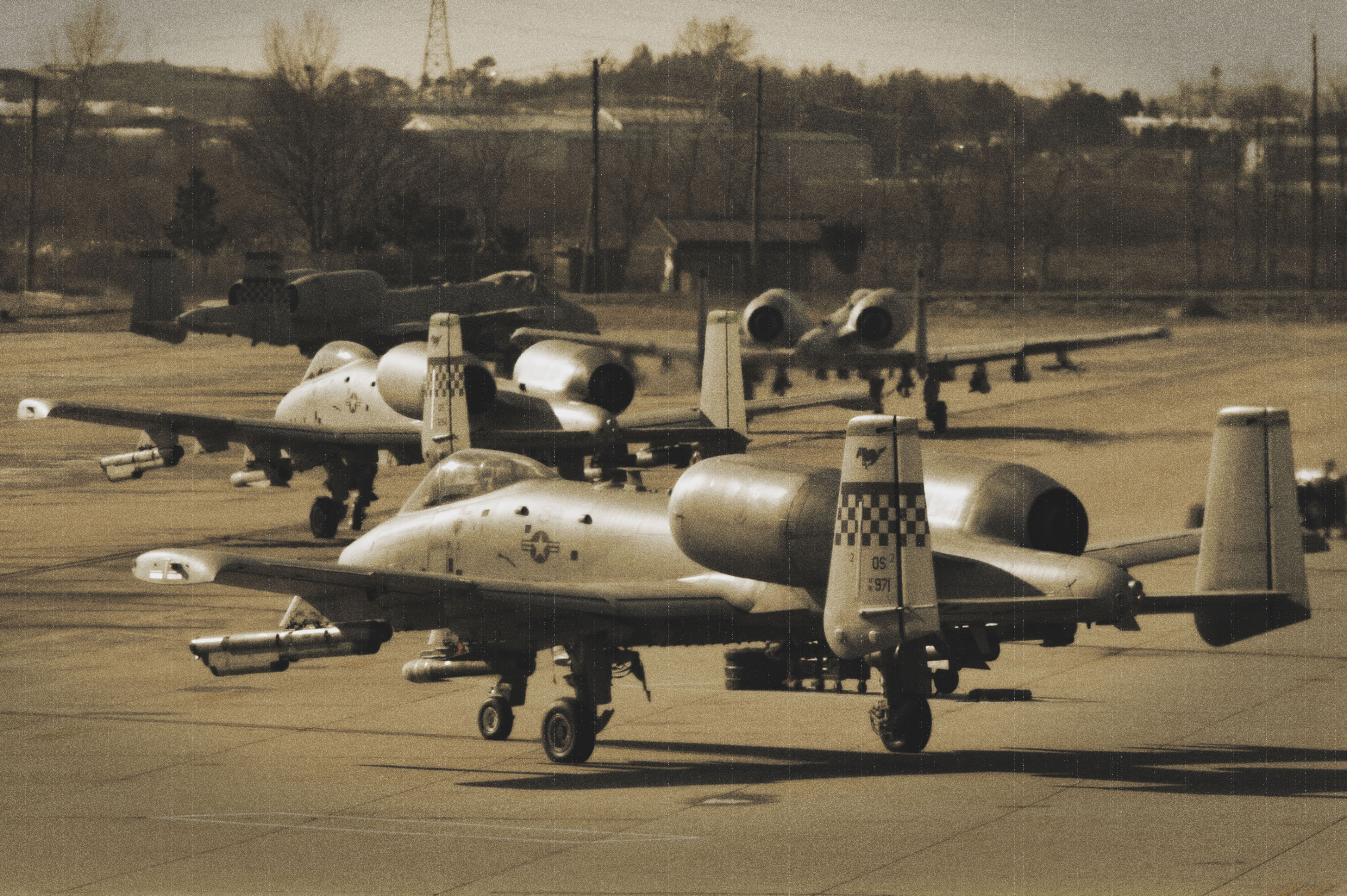 Pilots prepare for launch in A-10 Thunderbolt IIs at Osan Air Base, Republic of Korea, Dec. 4, 2012. The planes were launching for a training sortie. (U.S. Air Force photo illustration/Staff Sgt. Craig Cisek)